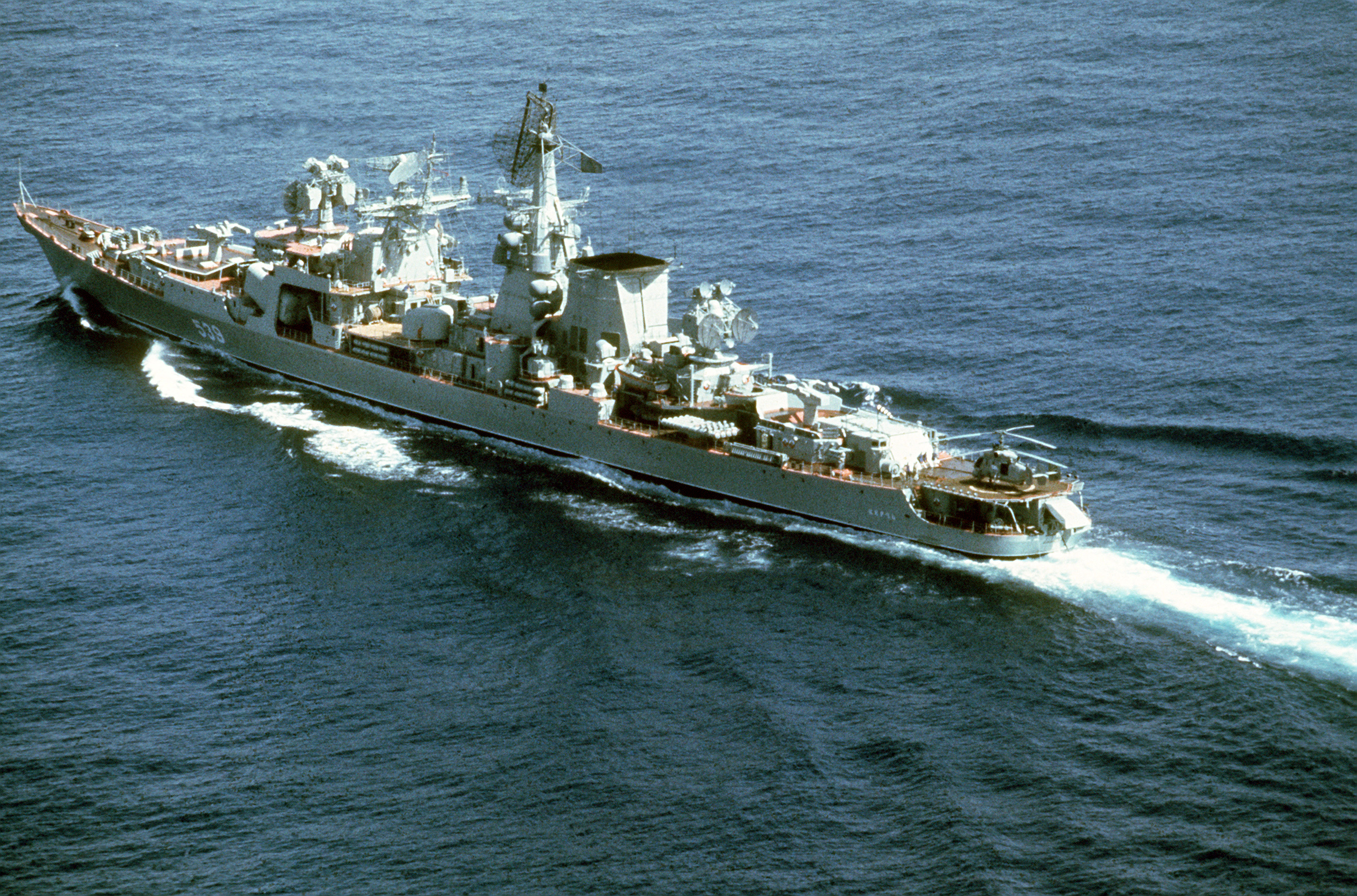 A port quarter view of the Soviet Kara Class guided missile cruiser KERCH underway.